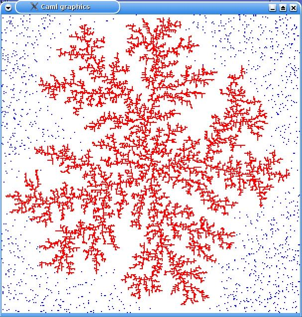 This image is a screenshot of a dendrite created according to the model of Witt and Sander[1]. The implementation was done in CAML, by your devoted servant.